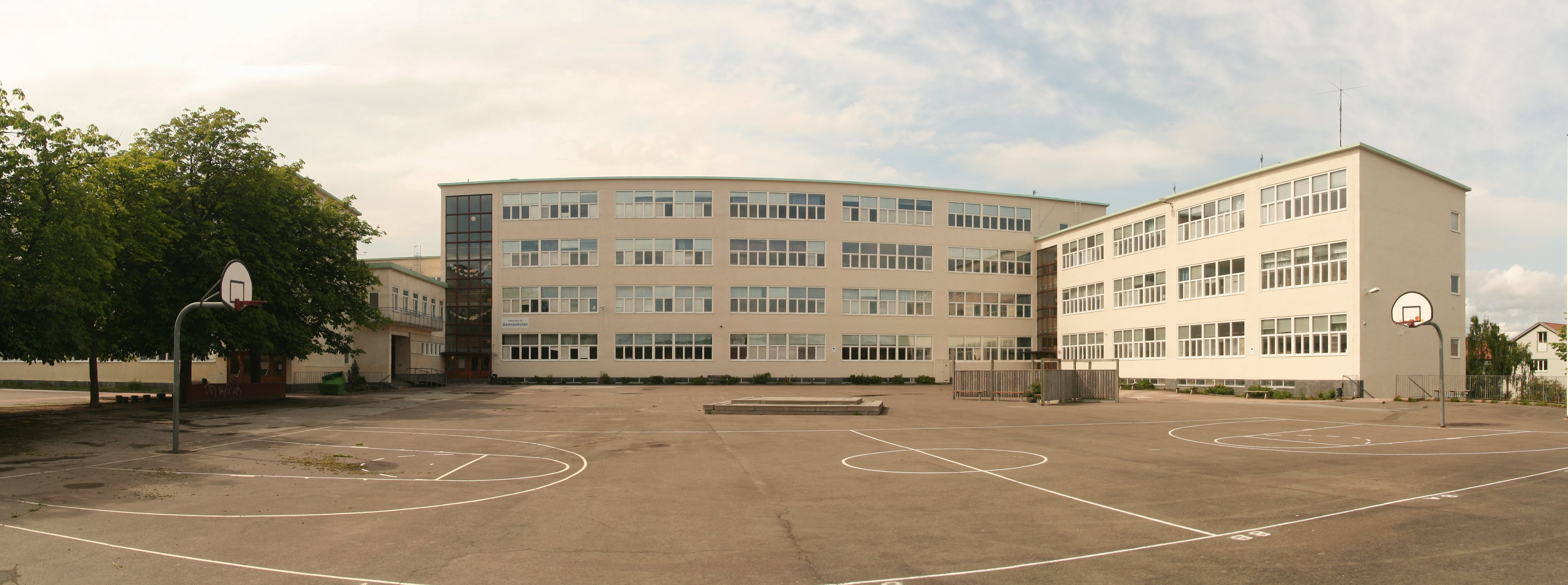 Sannaskolan in Göteborg, Sweden. Panorama of the playground.